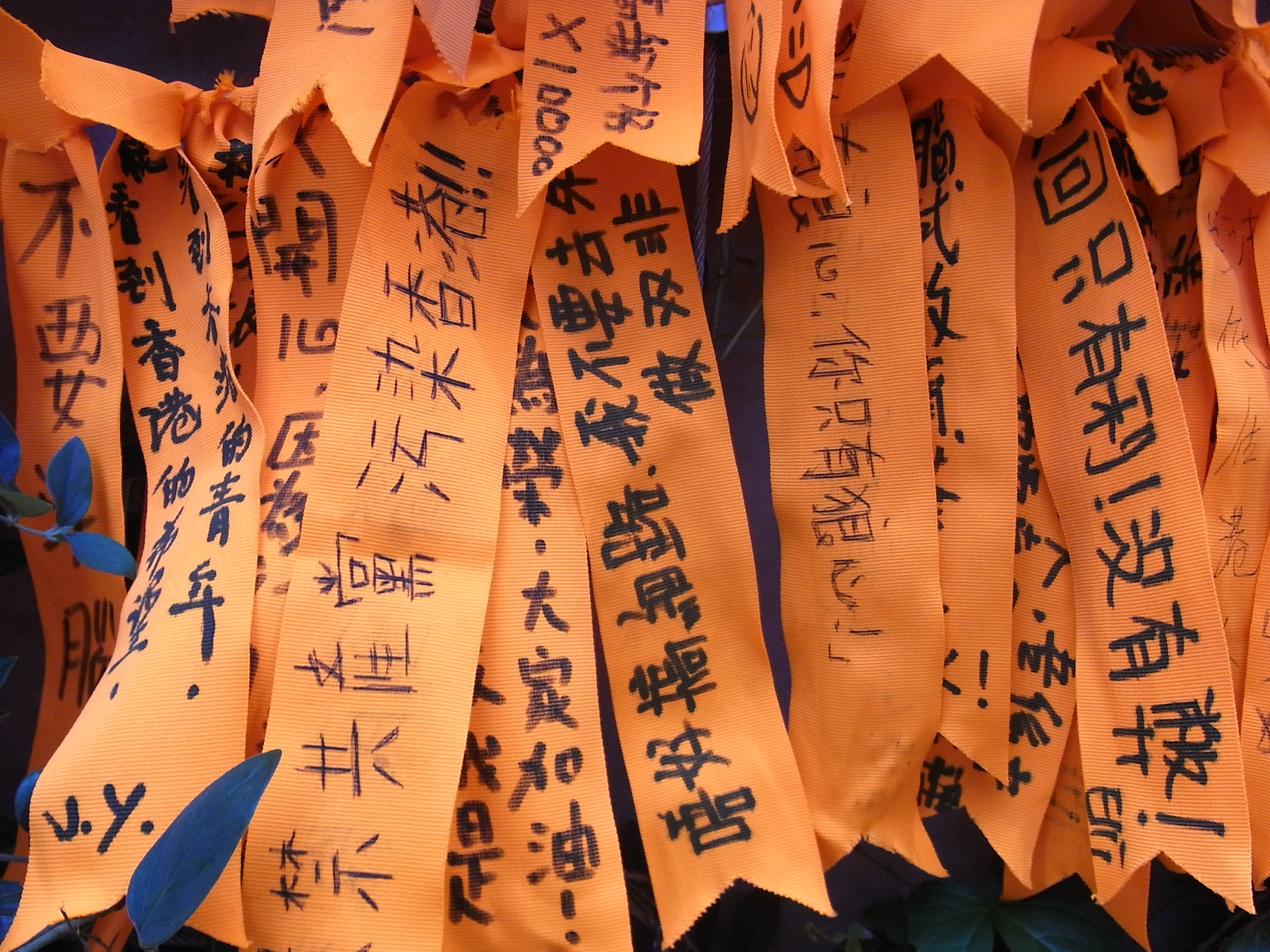 絲帶, Wall of ribbons, Admiralty, Hong Kong